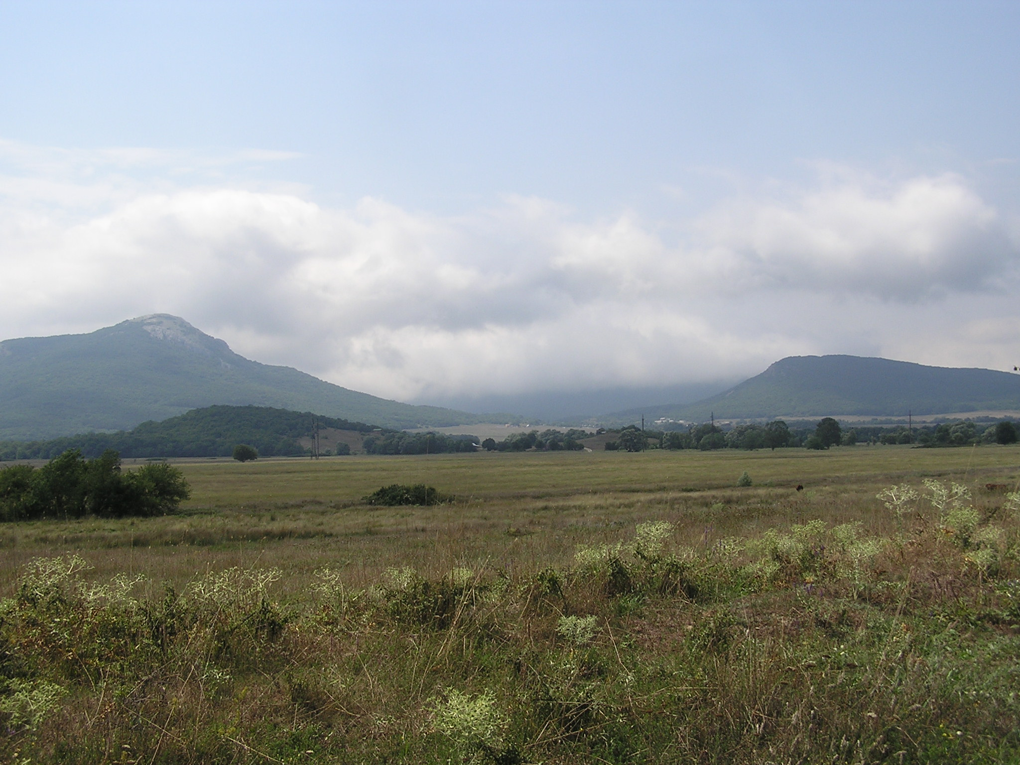 Baydarskaya Valley